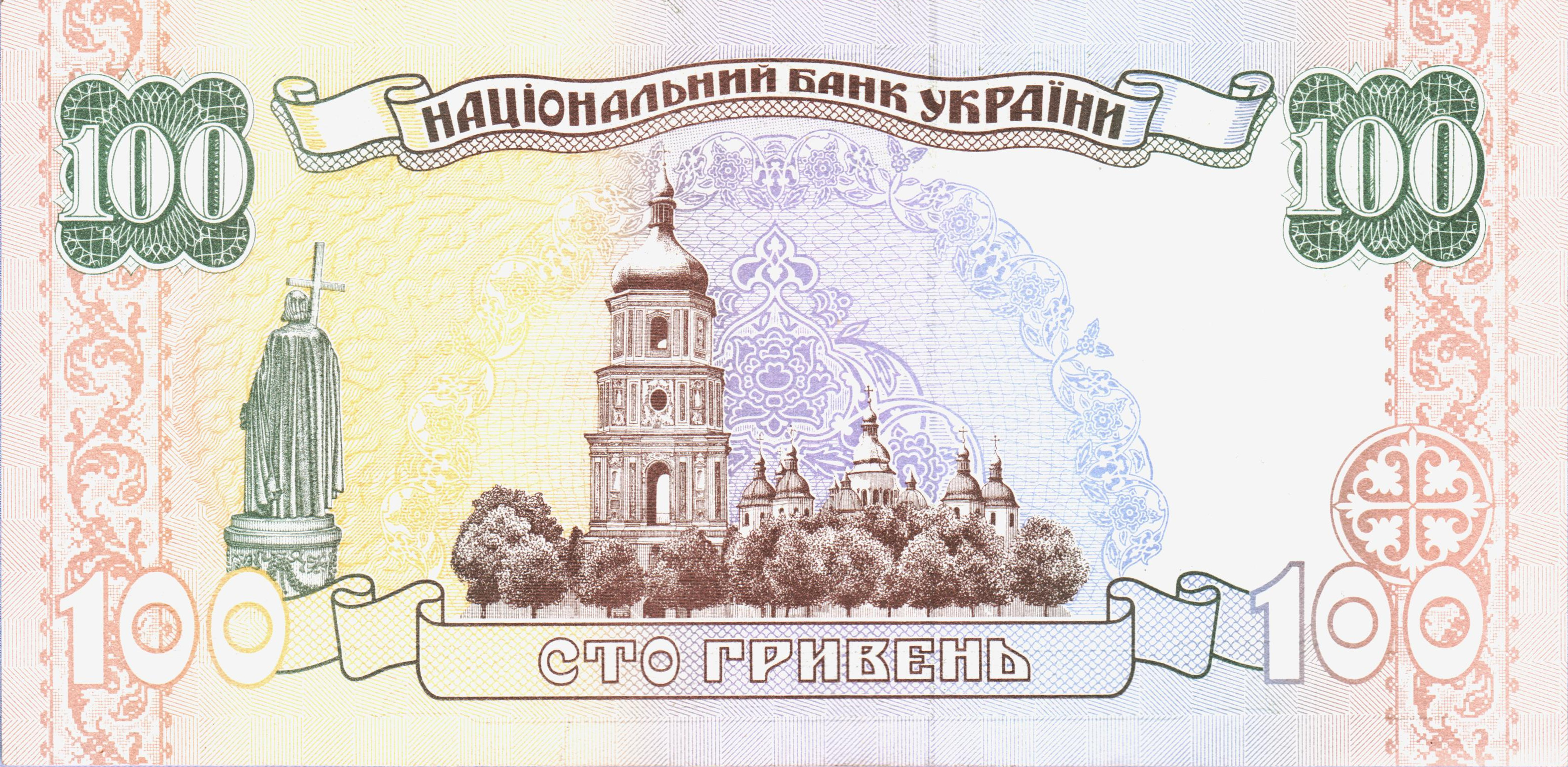 100 Hryvnia banknote (Ukraine), 1995, b.